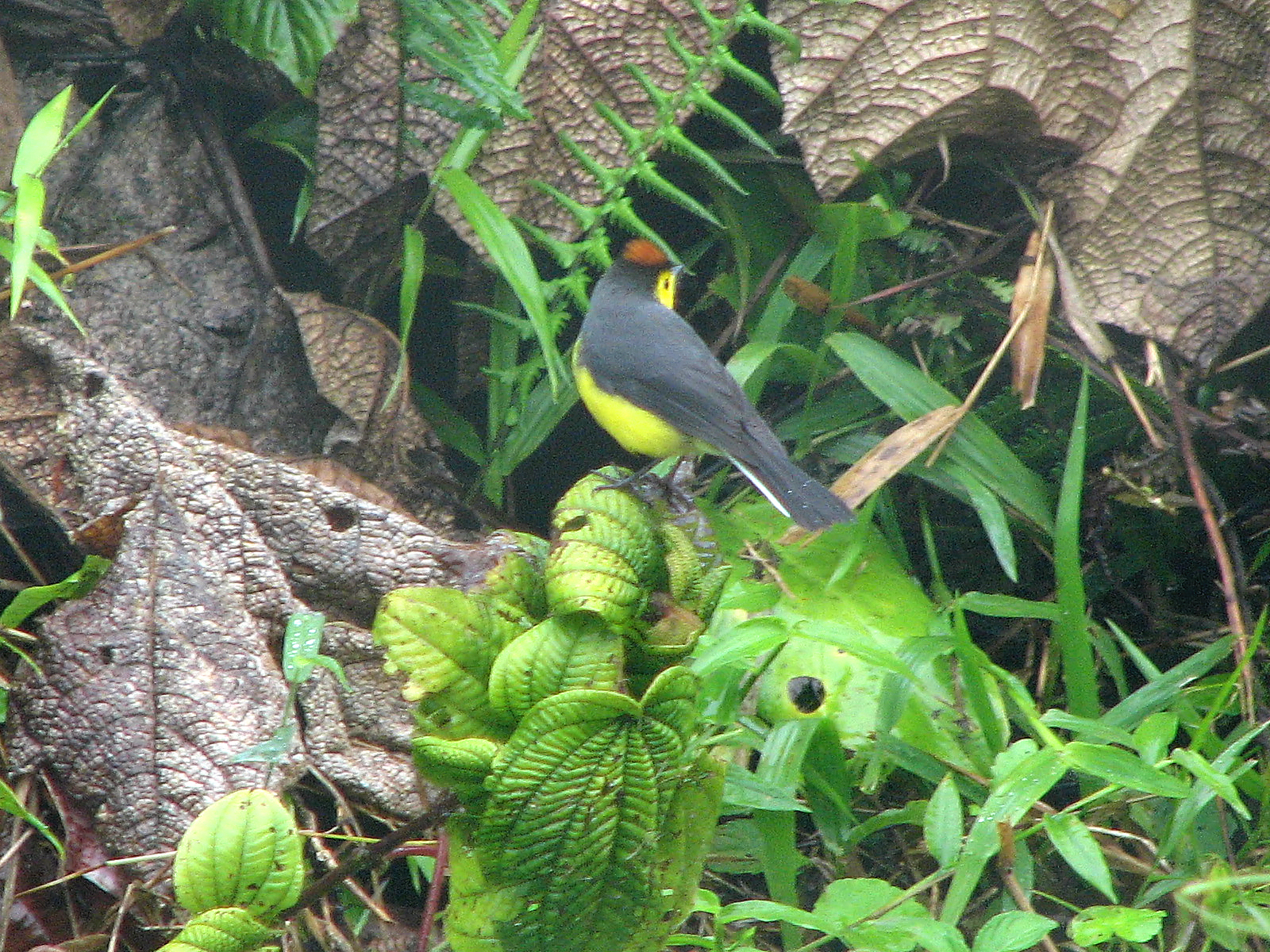 Collared Redstart (Myioborus torquatus) taken in Monteverde rain forest, Costa Rica